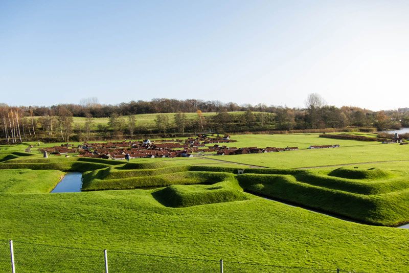 Madsby minitown, Fredericia, Denmark